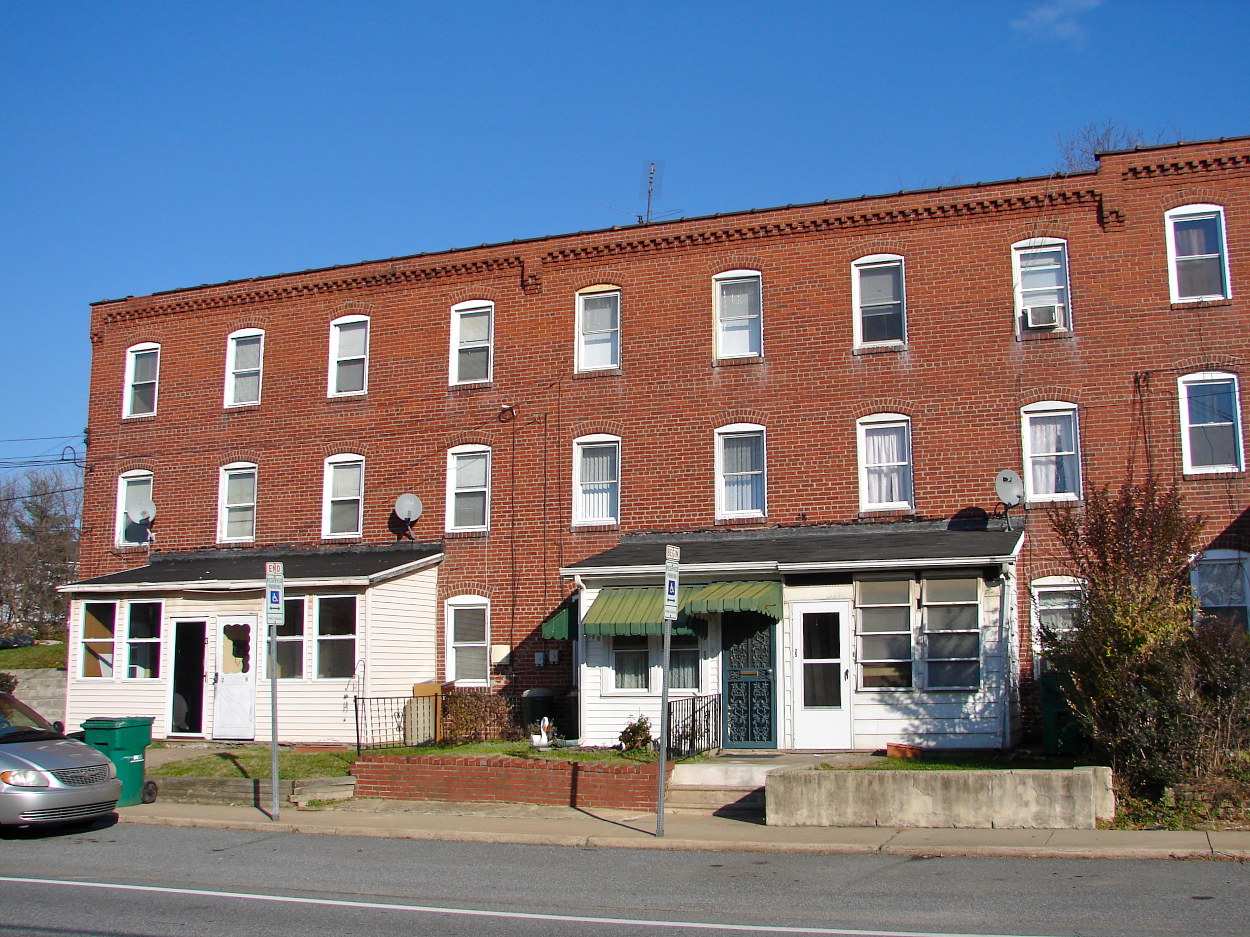 Hickman Row on the NRHP since June 16, 2006. At 1-117 Hickman Rd., Claymont, Delaware (almost Pennsylvania) Row houses built for Southern Black immigrants moving to work in the nearby steel mill.